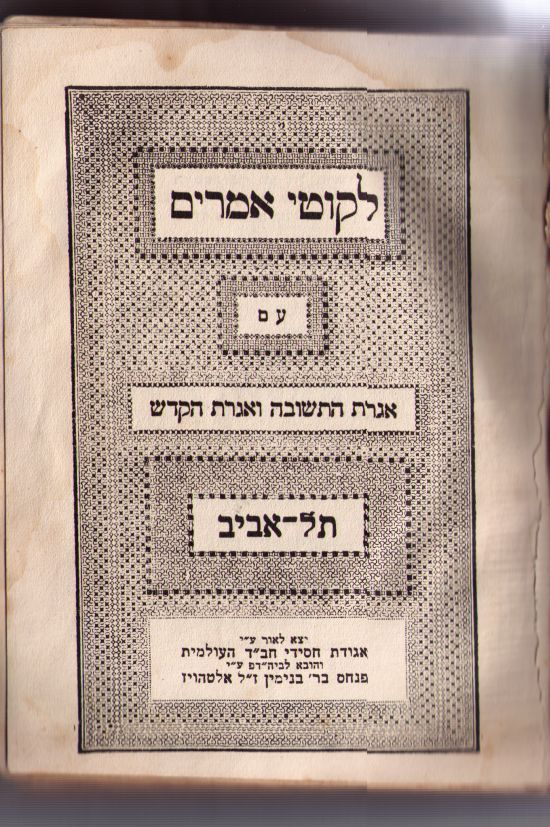 Tanya Tel Aviv 1944